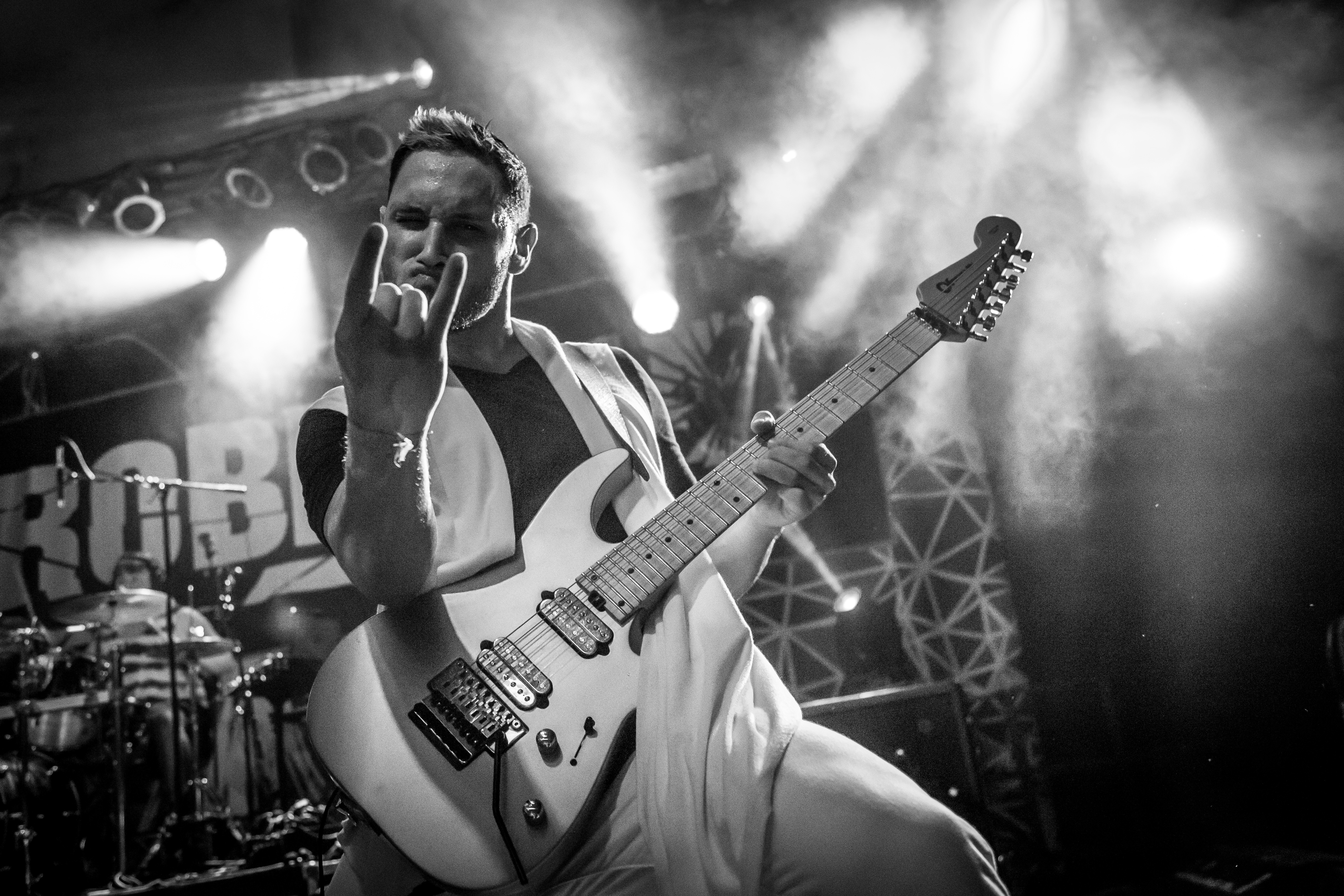 Angel Vivaldi performing live at Euroblast Festival, Cologne 2017